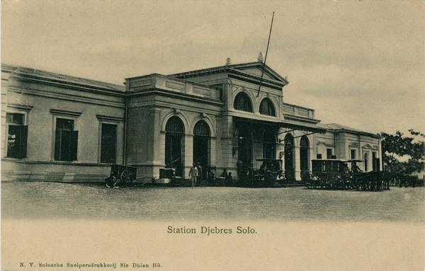 Railway station Solo Jebres (Surakarta)